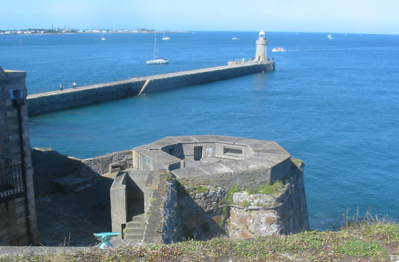 Castle Cornet, Saint Peter Port, Guernsey, May 2009